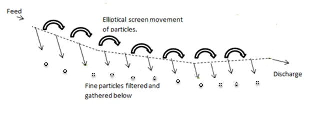 This diagram shows the movement pattern of a particle down a vibrating screen.